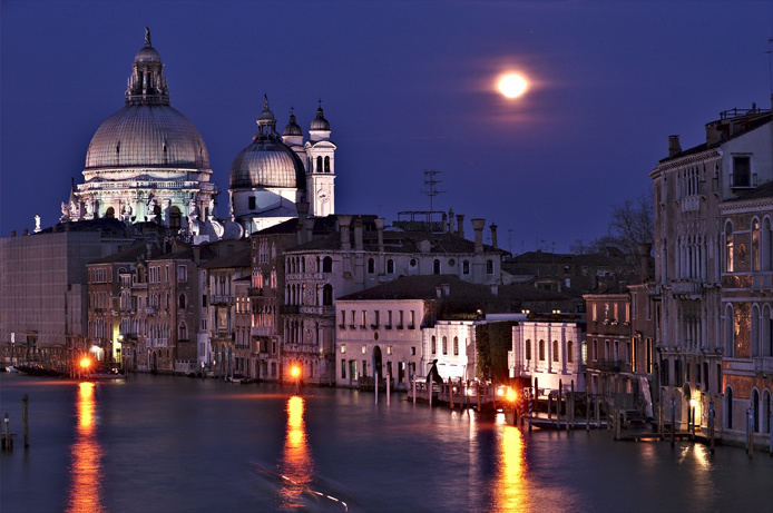 The Church of Santa Maria della Salute in Venice. Runa Simi: Venezia.